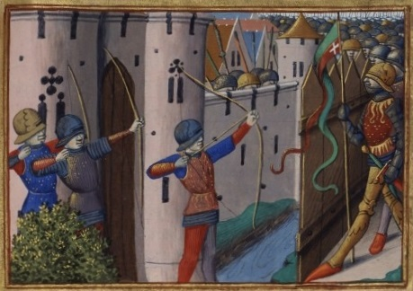 Vigiles de Charles VII